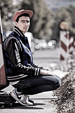 Portrait of Boys Noize, photographed by Matti Hillig. The photo was taken in Berlin on August 25, 2009. Boys Noize is the stage name of Alexander Ridha, a German electronic record producer and DJ. He established Boysnoize Records in 2005. Ridha has remixed a number of other artists work, including Snoop Dogg and Depeche Mode. Alexander Ridha was part of the producer duo Kid Alex, together with Andreas Meid. High-resolution versions of this and more photos are available. Please contact me